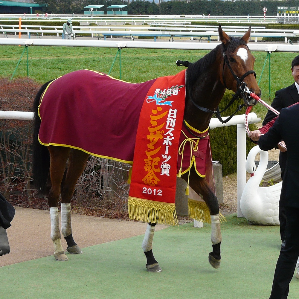 Gentildonna20120108